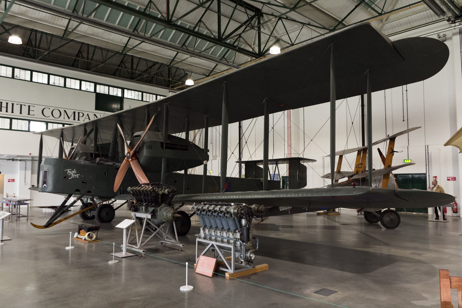 Replica Vickers Vimy, F8614, at the RAF Museum in Hendon